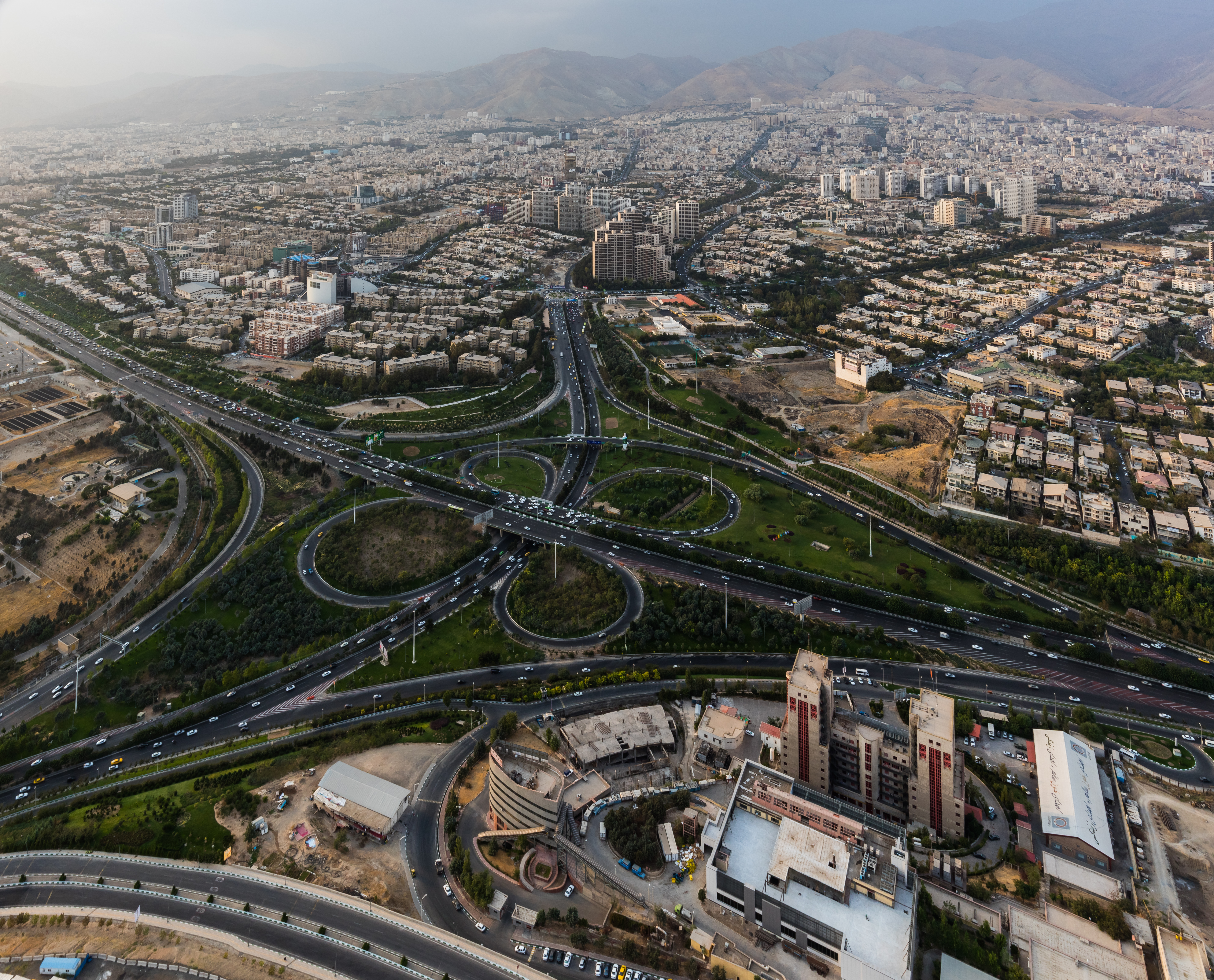 View of Tehran from Milad Tower, Iran